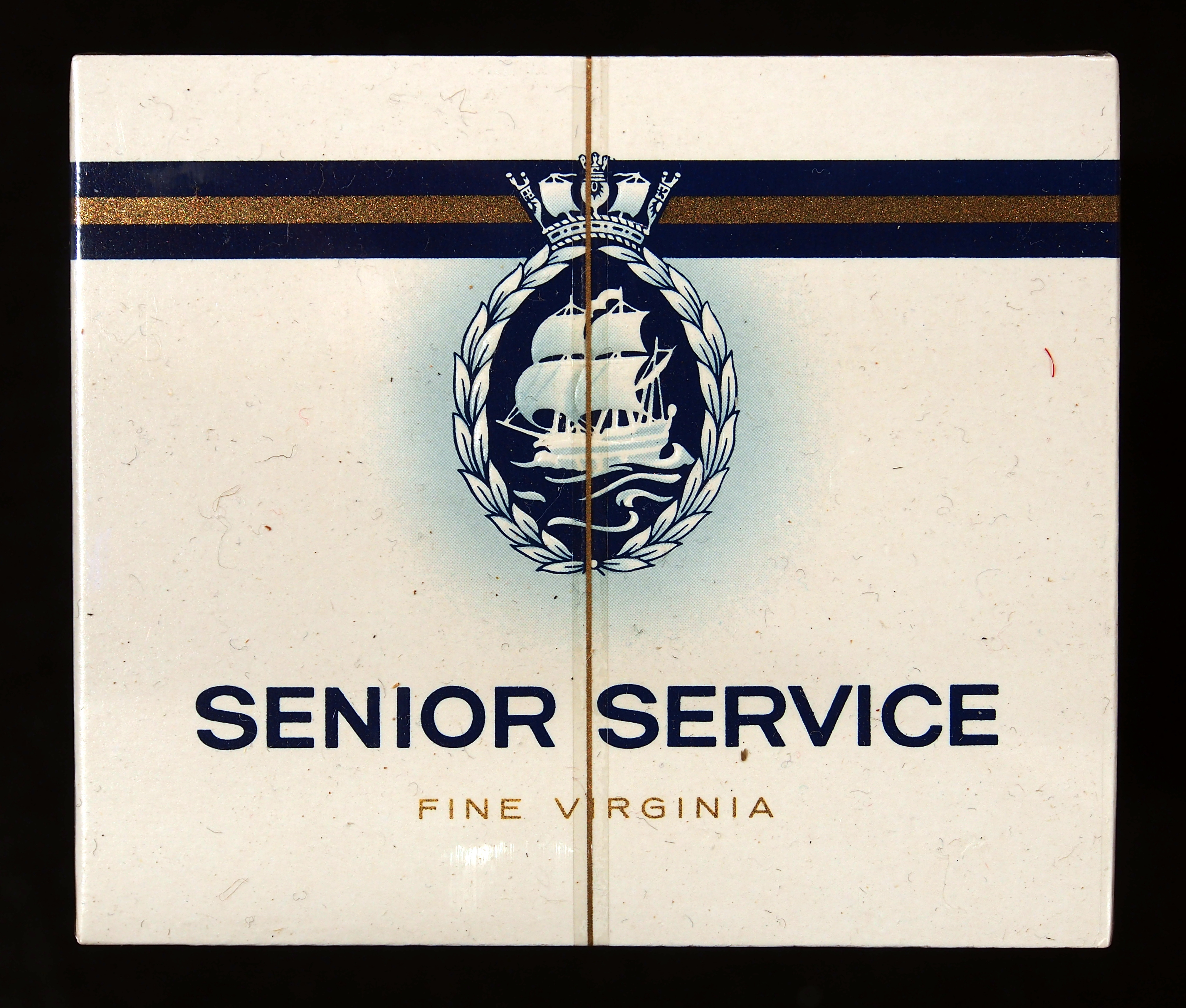 Very old packaging of a product that is not produced and/or not sold any more.